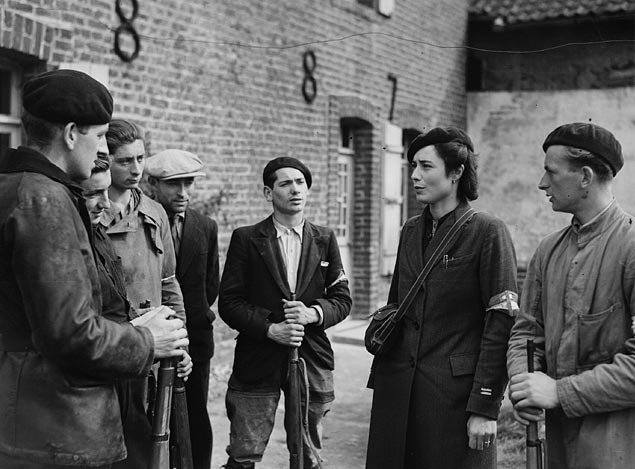 Members of the Maquis in La Trésorerie (a hamlet part of Wimille, near Boulogne-sur-Mer, France).